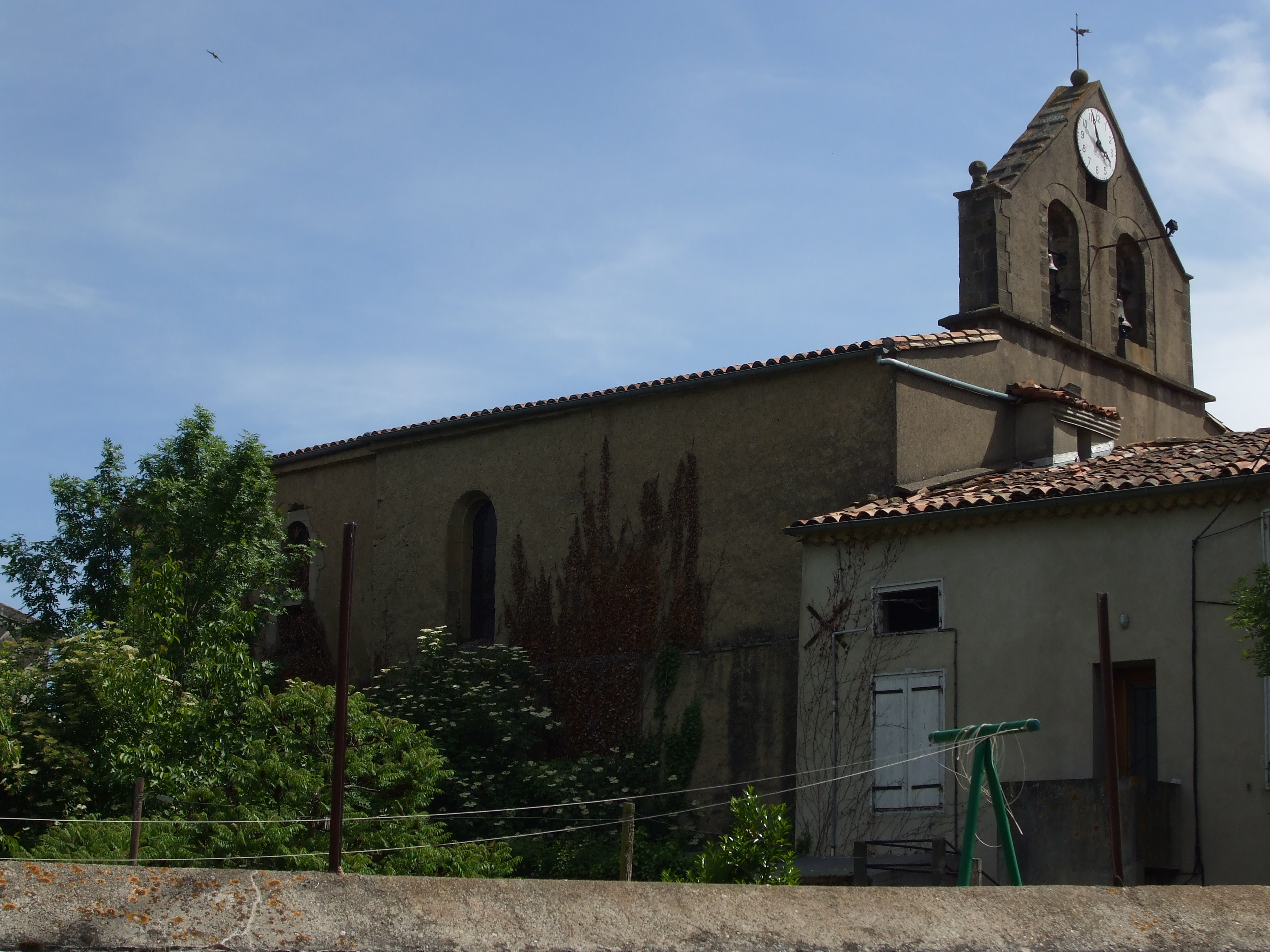 Church of Aigues-Vives, Ariège